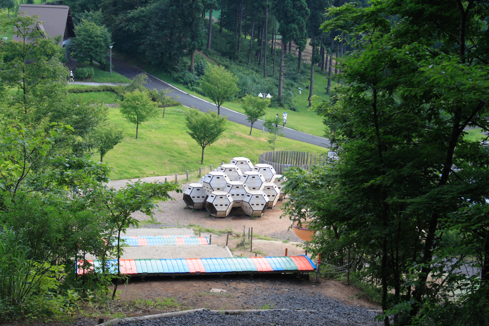 West Zaou Park in Yamagata city, Japan